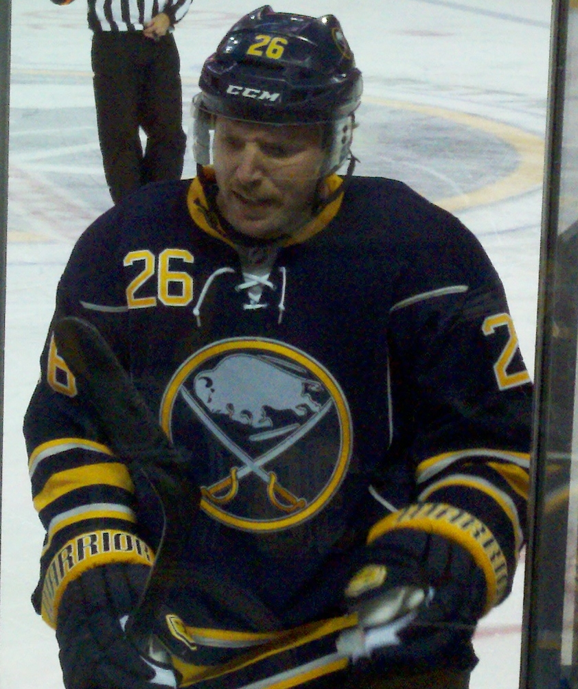 Thomas Vanek entering the penalty box.